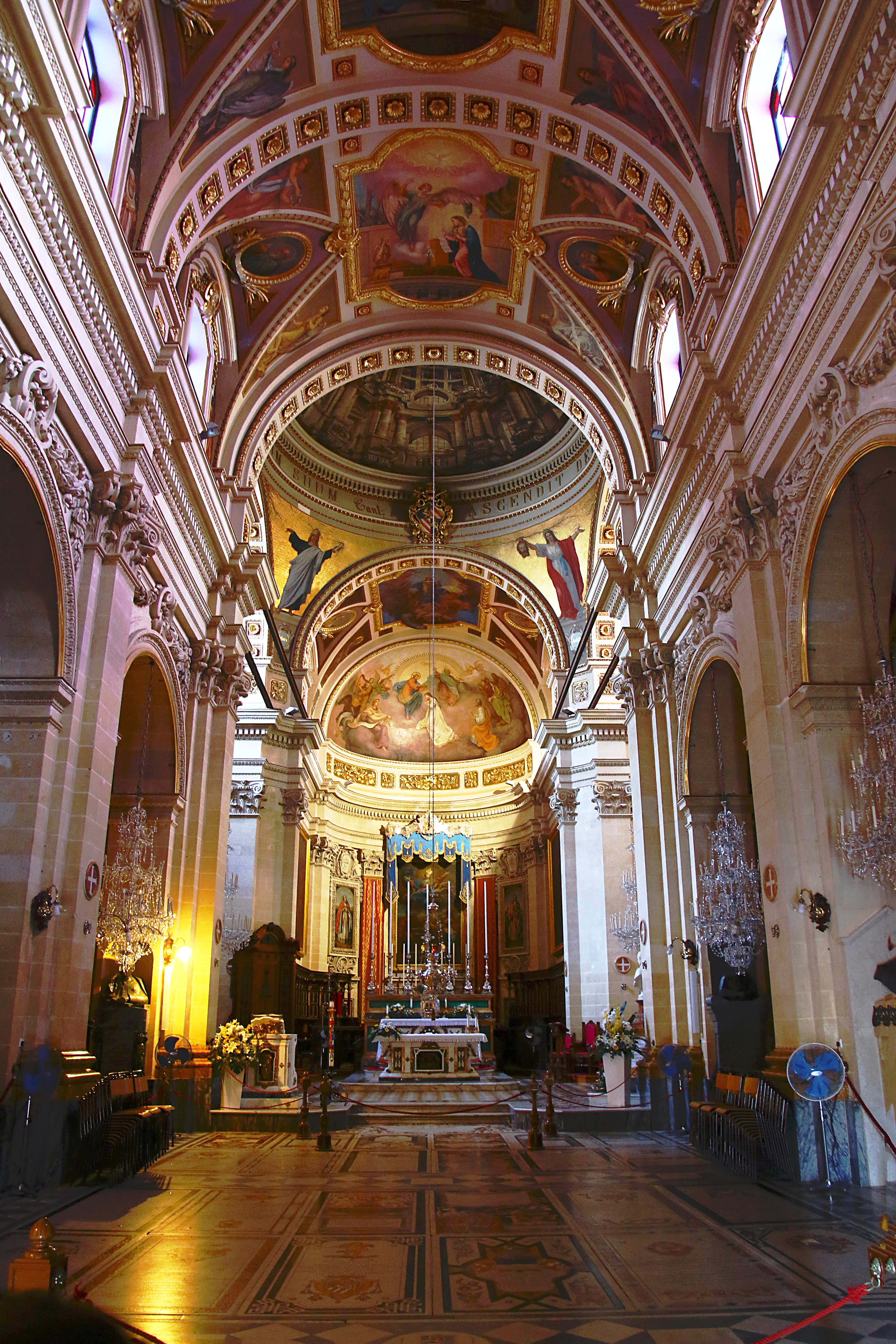 Internal view of the Cathedral of the Assumption in the Cittadella, Victoria, Gozo Malti: Ġewwa tal-Katidral tal-Assunta fiċ-Ċittadella, Rabat, Għawdex This media is about Maltese cultural property with inventory number 00889.